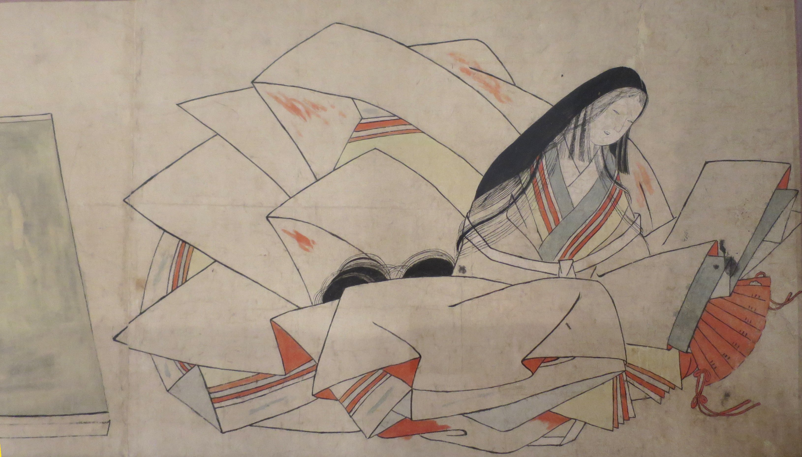 Nine Stages of Decomposition of the Heian Period Empress Danrin, anonymous, 18th century Japan, ink and colors on paper, Honolulu Museum of Art, accession 2007.3, ex. Richard Lane Collection